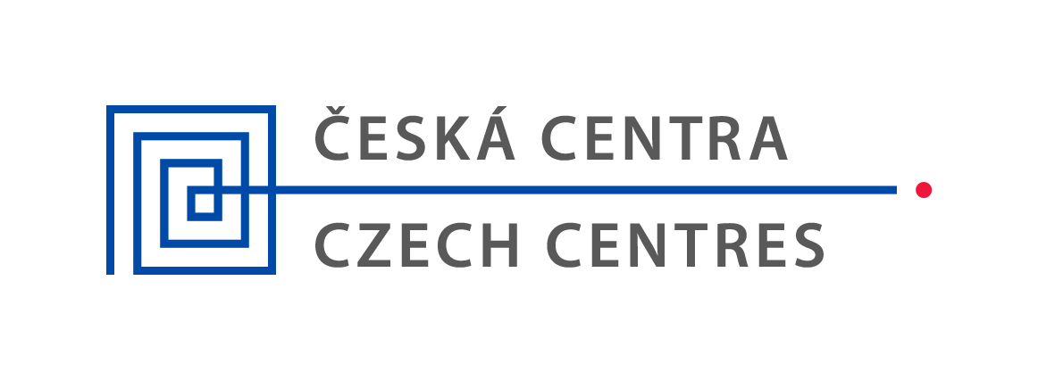 Official logo of the Czech centres